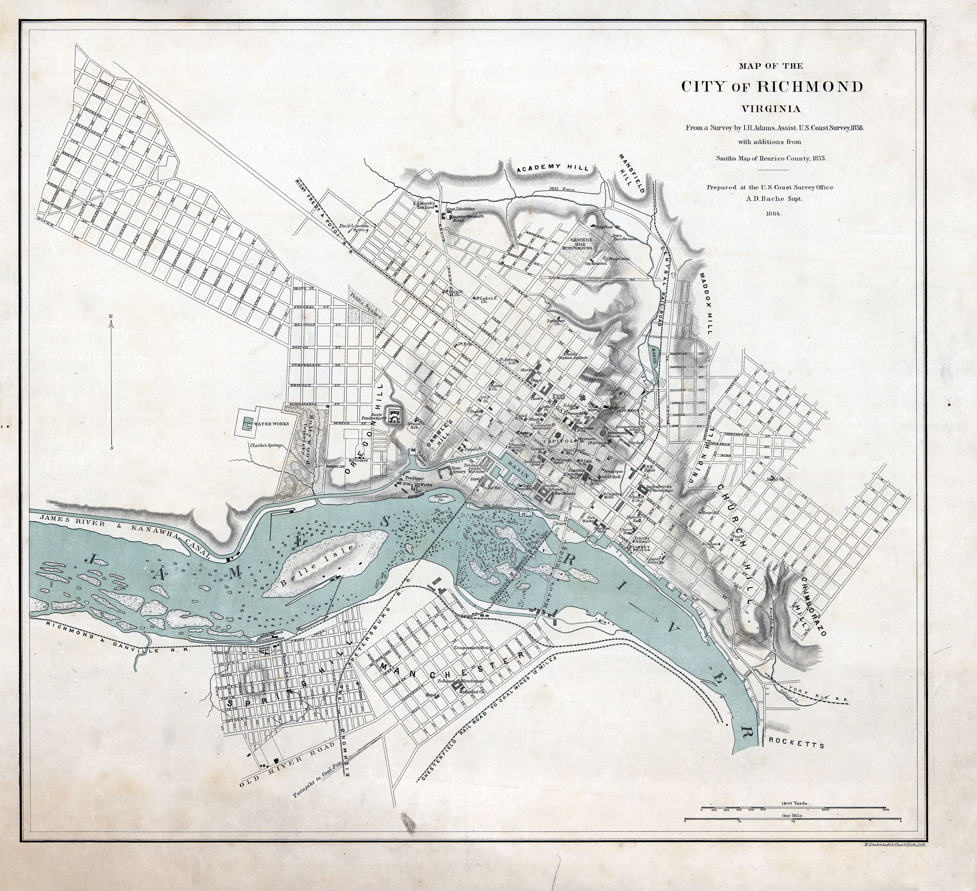 Map of the City of Richmond, Virginia. From a Survey by I.H. Adams, Assist. U.S. Coast Survey, 1858, with additions from Smith's Map of Henrico County, 1853. Prepared at the U.S. Coast Survey Office, A.D. Bache Supt. 1864. Scale ca. 1:13,350.